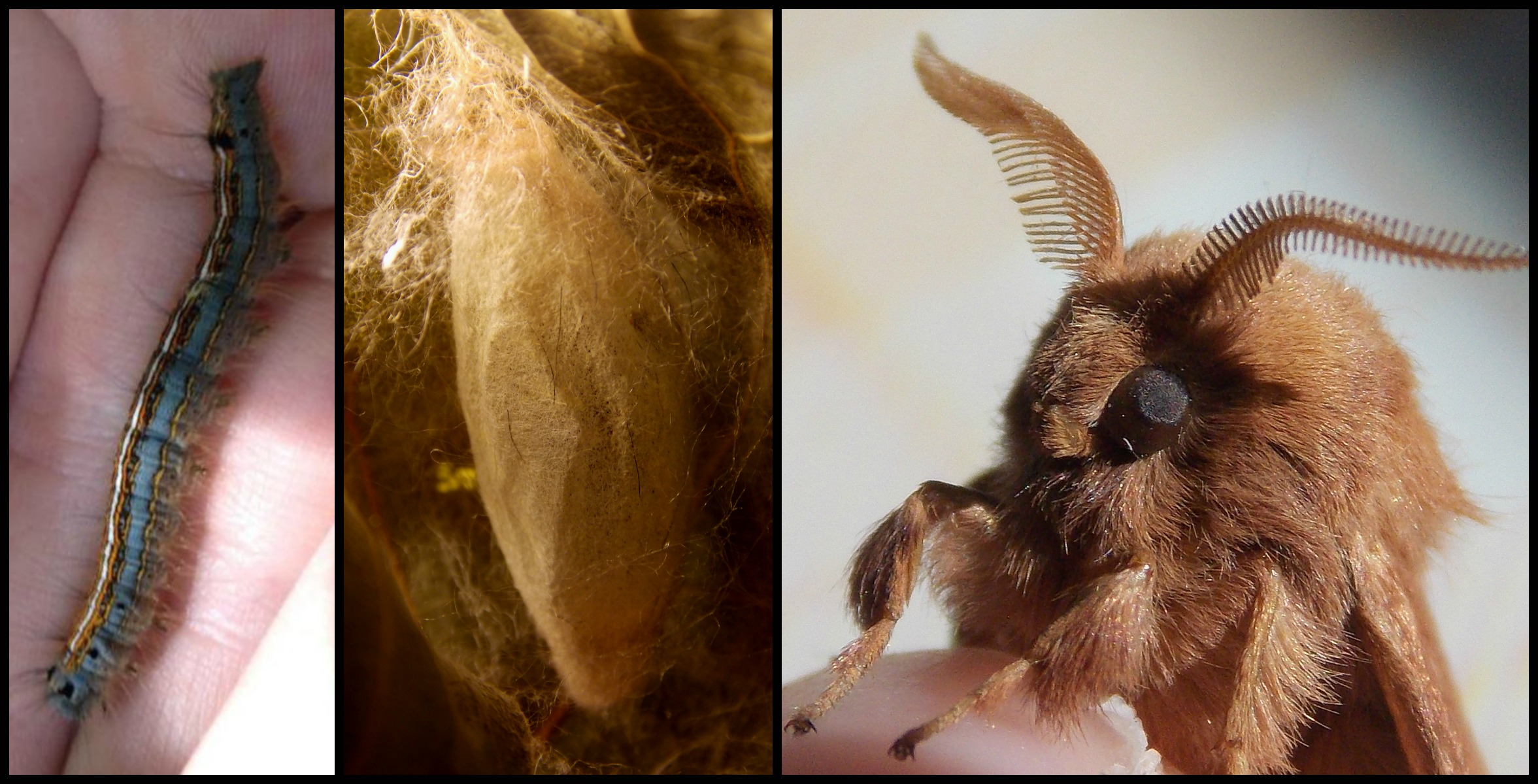 Metamorphosis of Tent Caterpillar